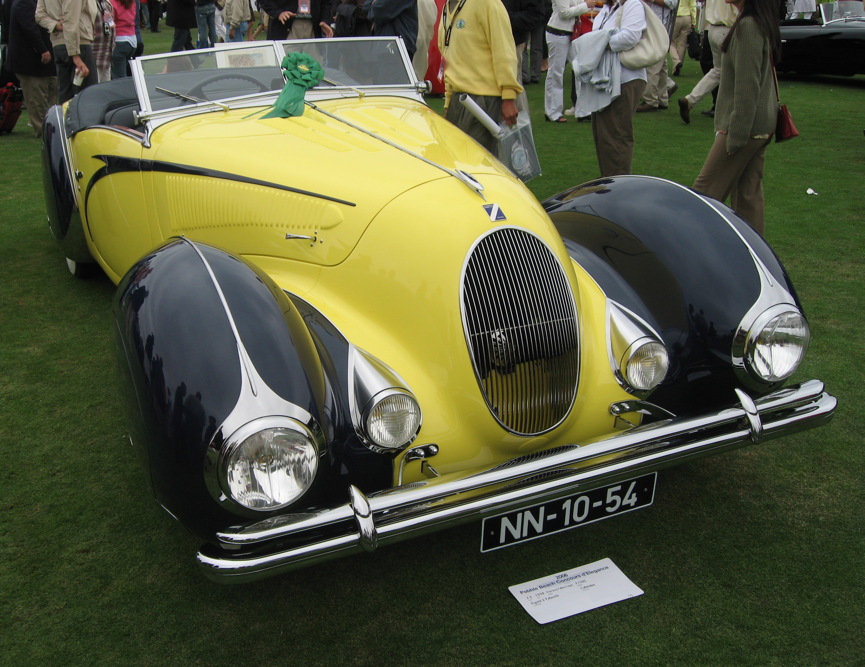 1938 Talbot-Lago T150C Spécial Roadster with bodywork by Figoni & Falaschi. S/N 90019